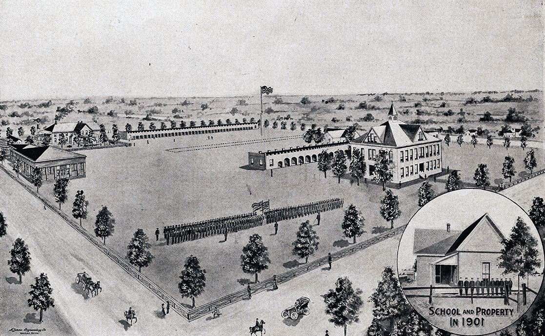 Carlisle Military Academy Tenth Annual Announcement; [page 9], drawing of CMA campus in 1901. From left to right, the buildings pictured are the Gymnasium, Mess Hall, West Barracks, Battalion, East Barracks (Office rear of East Barracks), and Cottage and Academy. In the inset is the School, First Year, 1901-02.